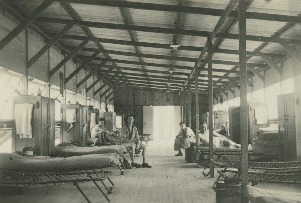 Army barracks at Kelvin Grove, Brisbane during WWII. Four unidentified soldiers relaxing in their hut at the Kelvin Grove barracks. Photograph shows the camp cots, wardrobes and the interior of corrugated iron and timber huts.